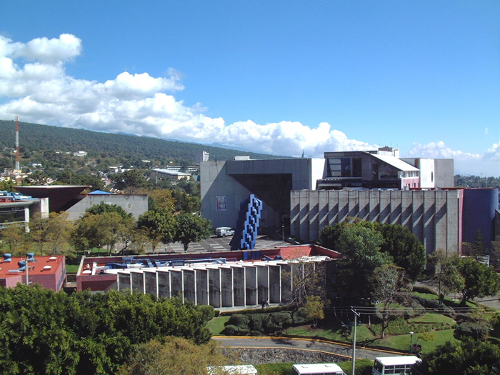 Vista aérea del Instituto Nacional de Salud Pública